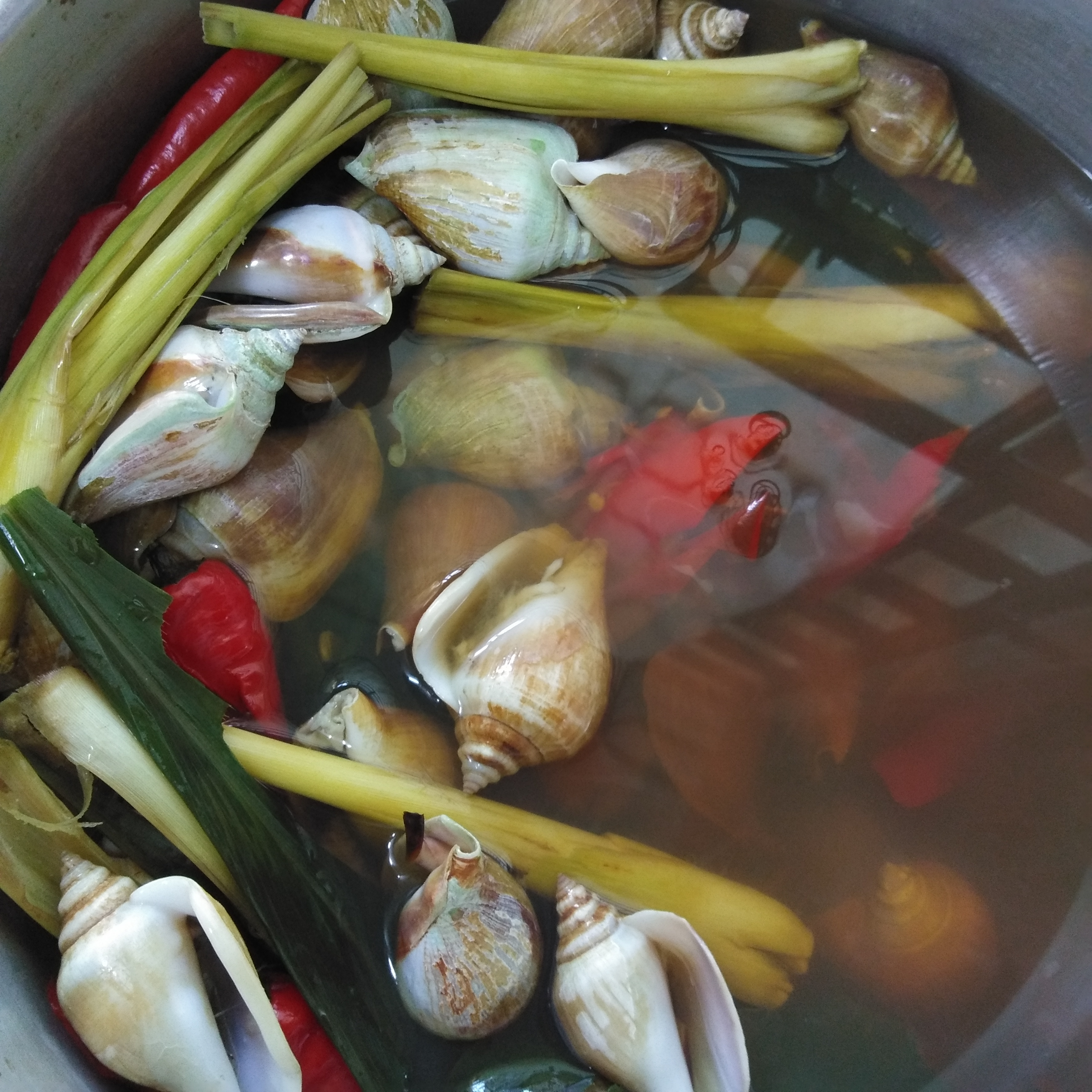 L. canarium is a local delicacy in Malay Peninsular known as Siput Gonggong Rebus which is boiled with lemongrass. It can be eaten with white rice.